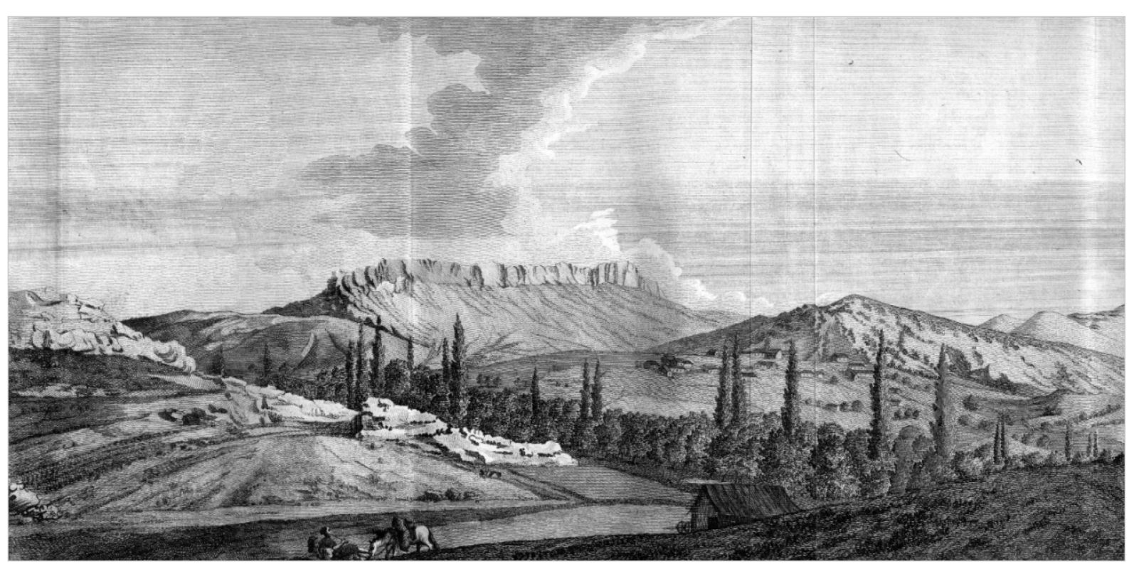 Taraktash valley 1805